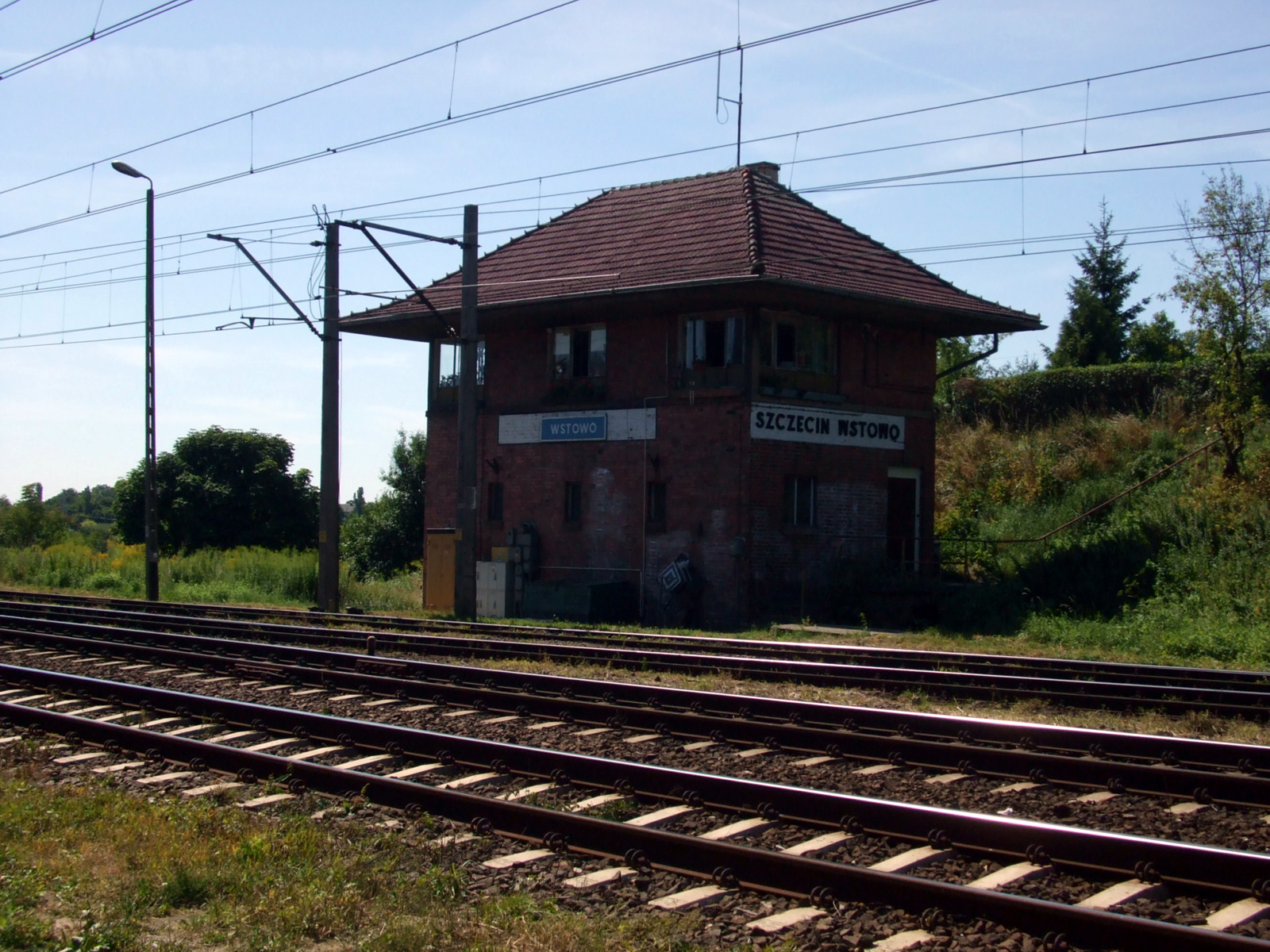 Polish railway station - Wstowo.